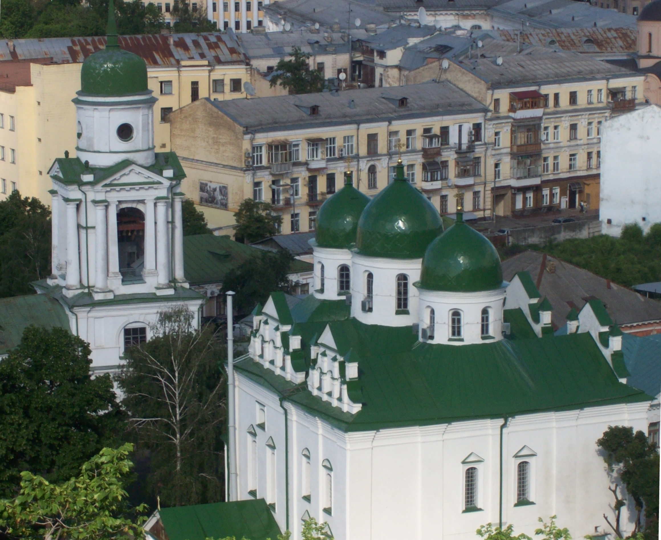 Florovsky Convent in Kiev